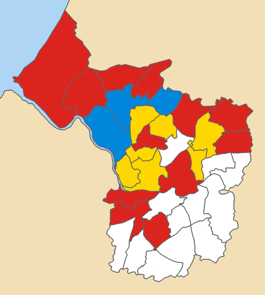 Results of the 1998 local elections in Bristol Colours: Conservative Labour Liberal Democrat No election in 1998